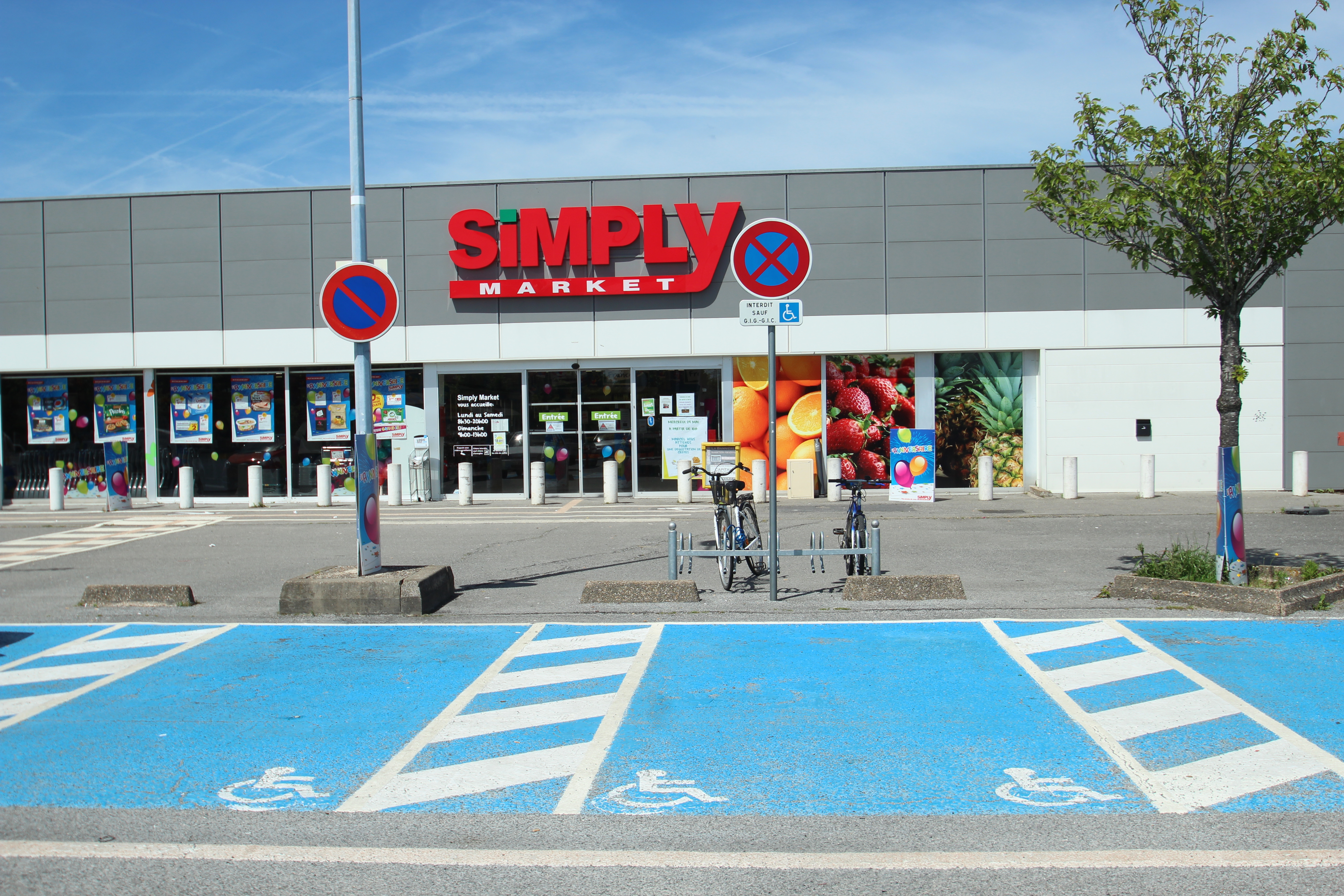 Giroderie shopping center in Rambouillet, France. Object location48° 38′ 43.15″ N, 1° 50′ 46.79″ E